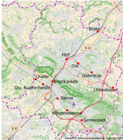 Bases on data by For its license Map of train stops and station in Bielefeld, Northrhine-Westphalia, Germany.